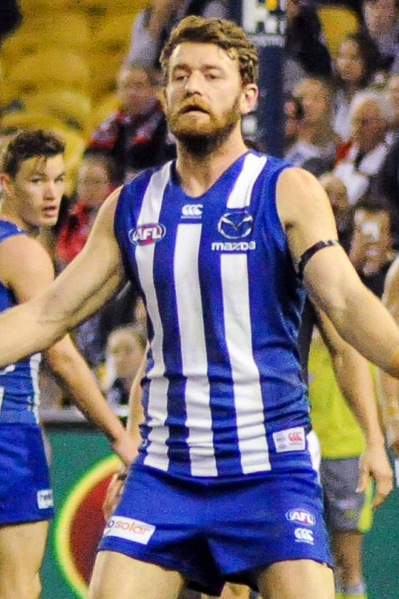 Lachlan Hansen during the AFL round thirteen match between North Melbourne and St Kilda on 16 June 2017 at Etihad Stadium in Melbourne, Victoria.